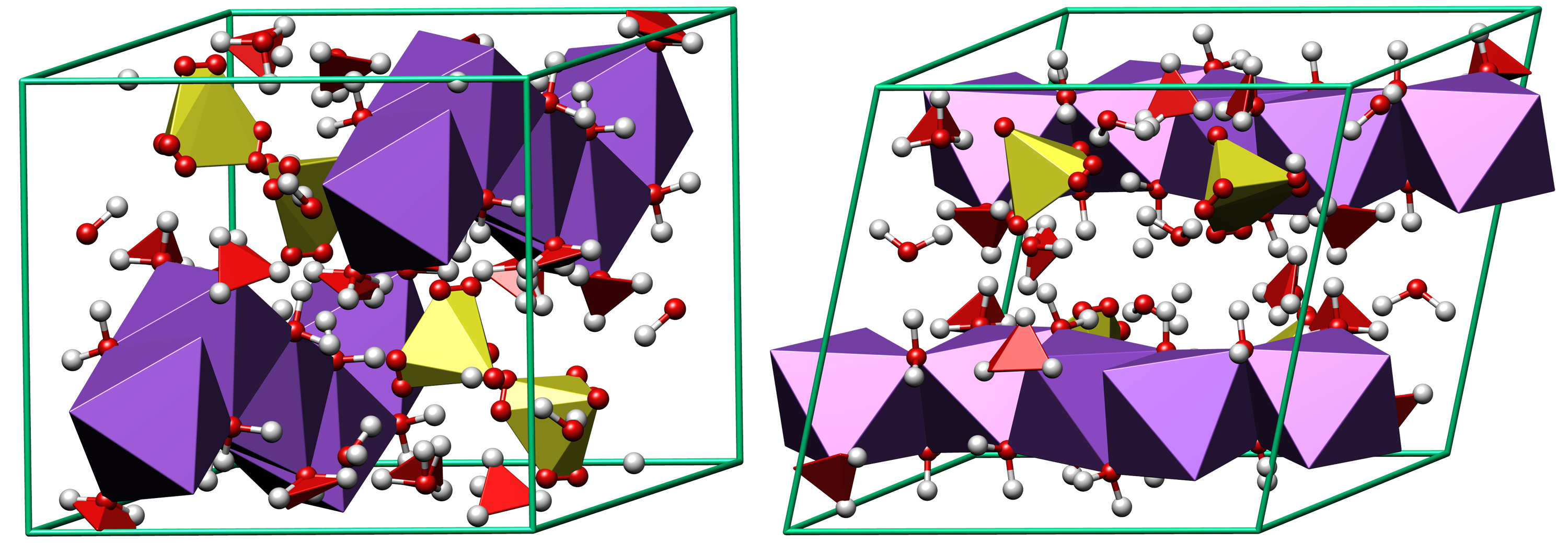 Crystal structure of mirabilite - Na2SO4·10H2O. Levy H, Lisensky G; Acta Crystallographica B34 (1978) 3502-3510 Colour code: Potassium, K: indigo Sulfur, S: olive Hydrogen, H: white Oxygen, O: red Cell: blue-green